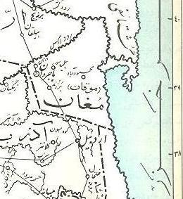 Moughan in Abbasid Caliphate